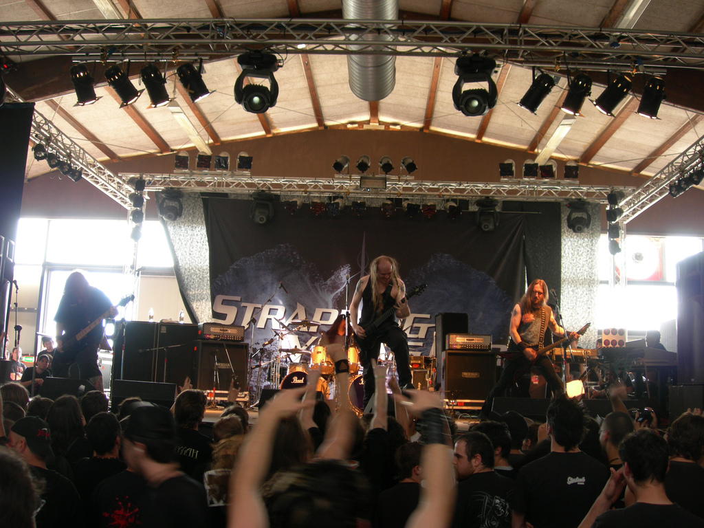 Strapping Young Lad at the Tribute to Flame Fest 2006 -- Left to right: Byron Stroud, Gene Hoglan (shown back with drums), Devin Townsend and Jed Simon